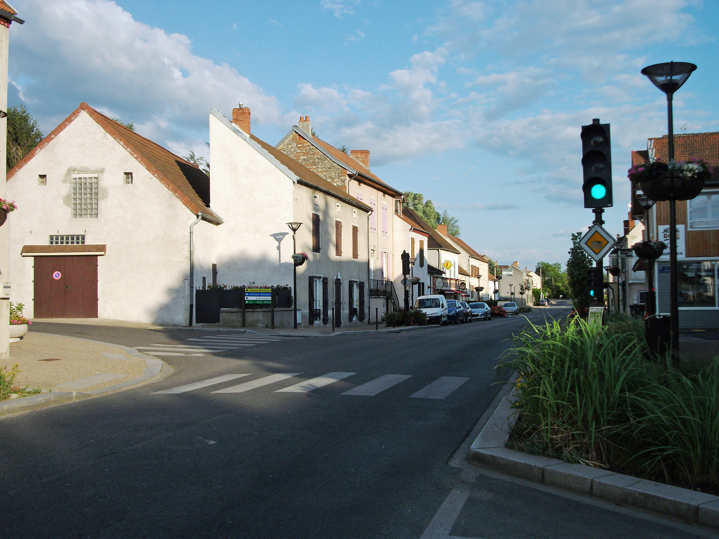 The only traffic lights of the town of Abrest is located at the intersection of four roads: Avenue de Vichy (camera location, from the north), Avenue de Thiers (to the south), Route de Quinssat and Rue de la Liberté. Zone 30 (maximum speed: 30 km/h) redeveloped in two phases. The traffic light is in place since late February 2010 and replaces an old model gantry. The sign indicating that the road is priority would date from 1990 (no information back).